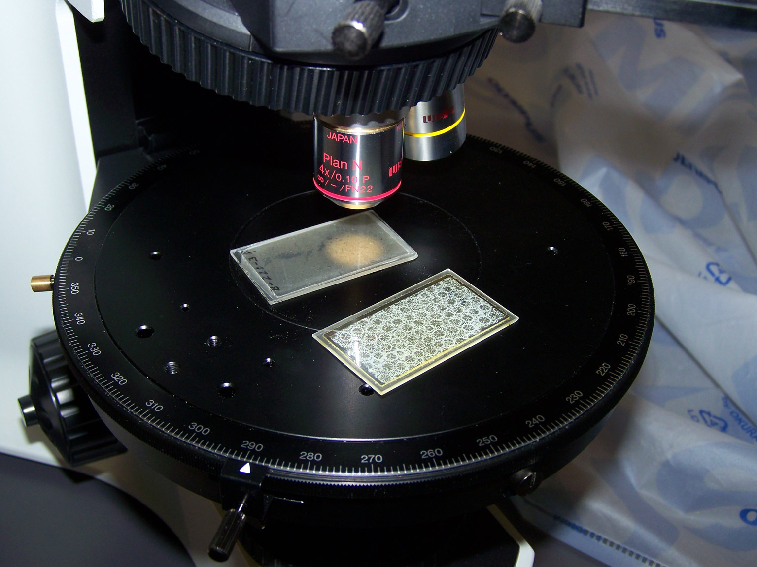 Thin sections of limestone rocks (one is a coral boundstone) under an optical microscope